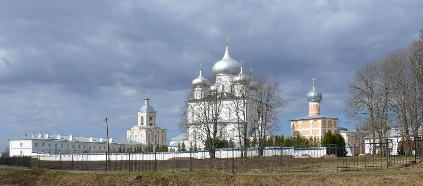 Khutynsky monastery. Novgorodsky district, Novgorod oblast, Russia